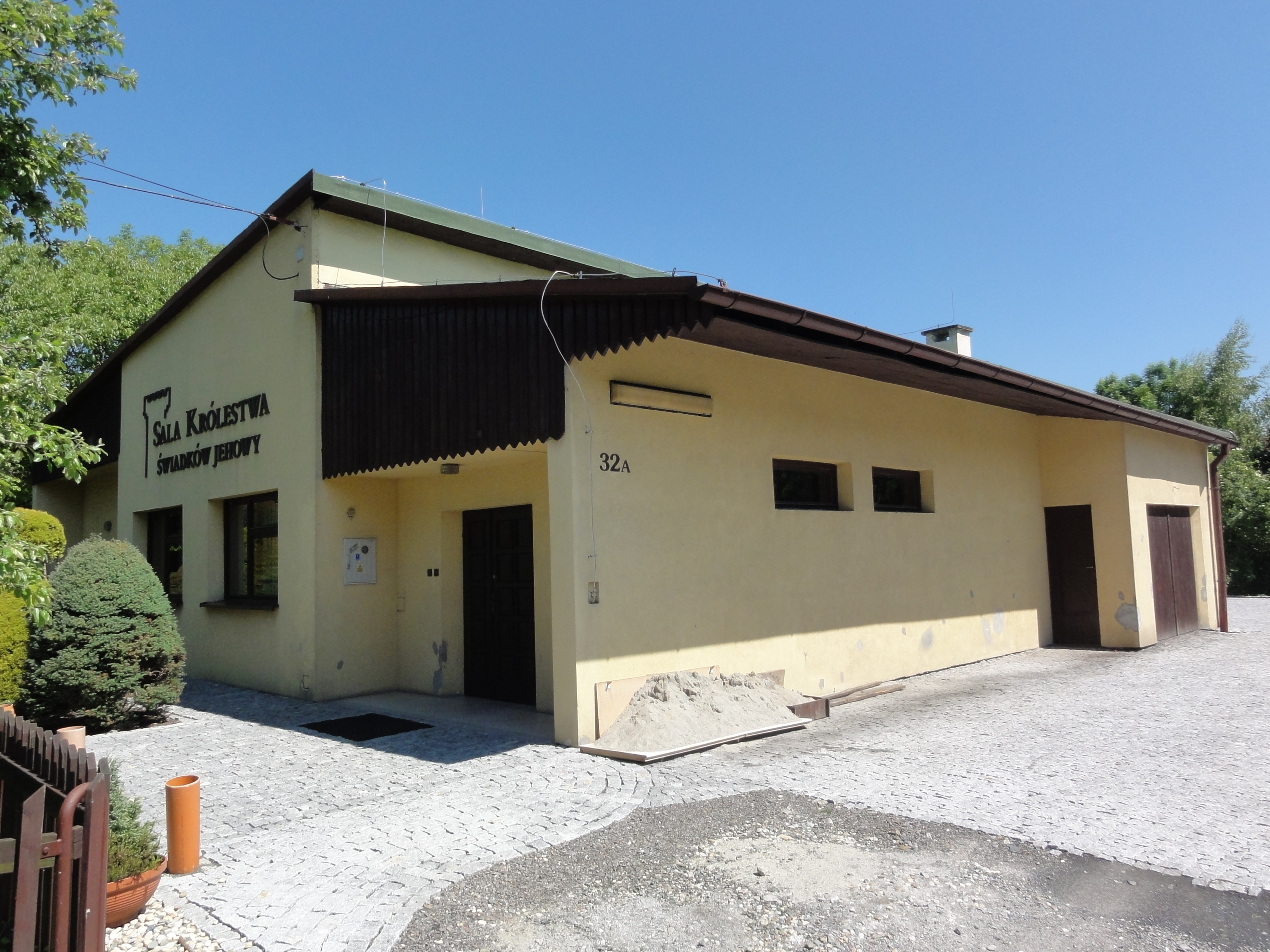 Kingdom Hall in Skoczów